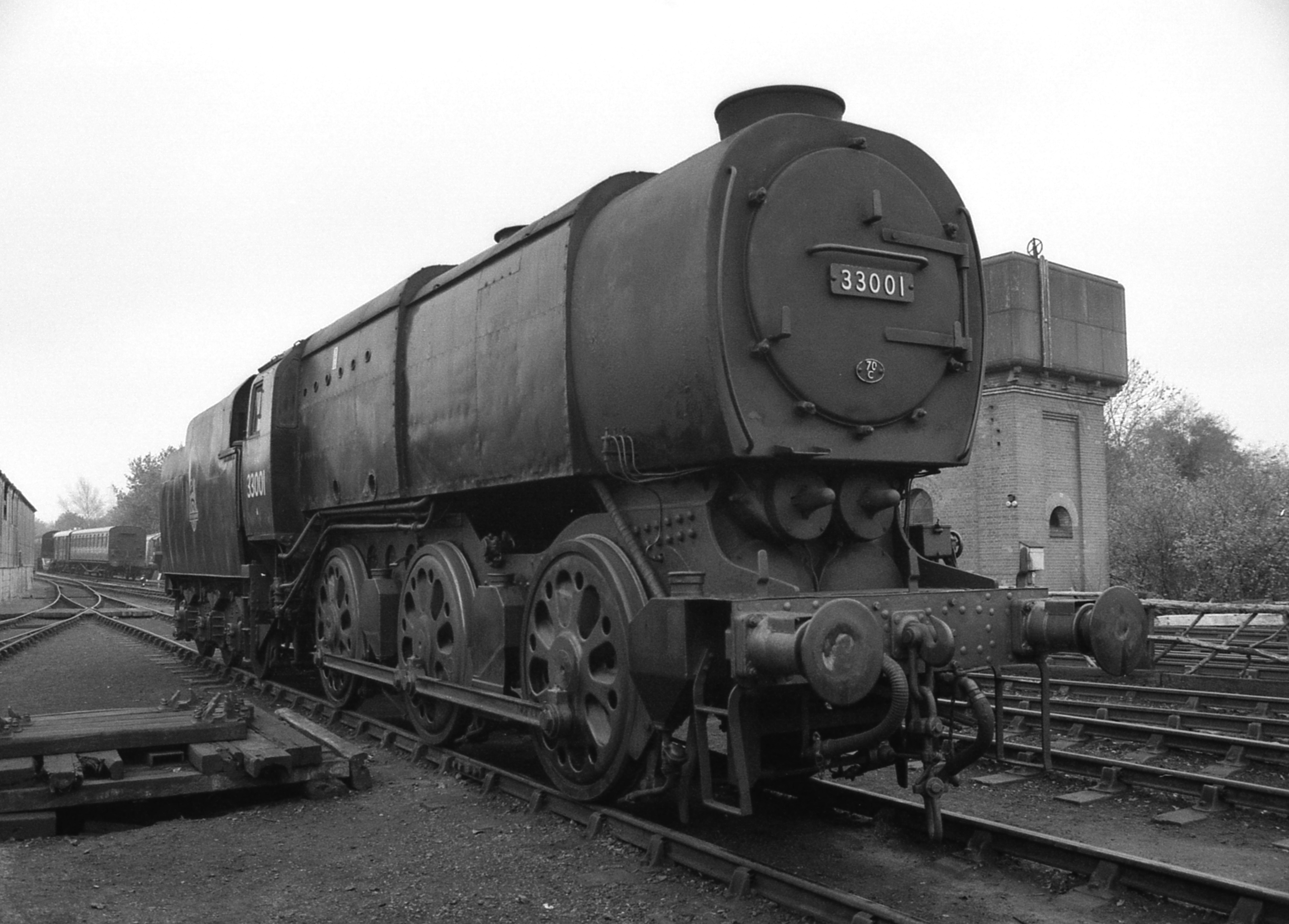 Preserved Southern Railway Q1 class 0-6-0 No. 33001 displays her not so obvious attractions on the Bluebell Line. It does not necessarily take good looks to endear an engine to enginemen. The undeniable faith that these beasts would do the job, was normally enough in their case. (Although the cabs were almost unbearably hot in high summer!) Camera: Olympus OM1 35mm SLR. Film: Kodak